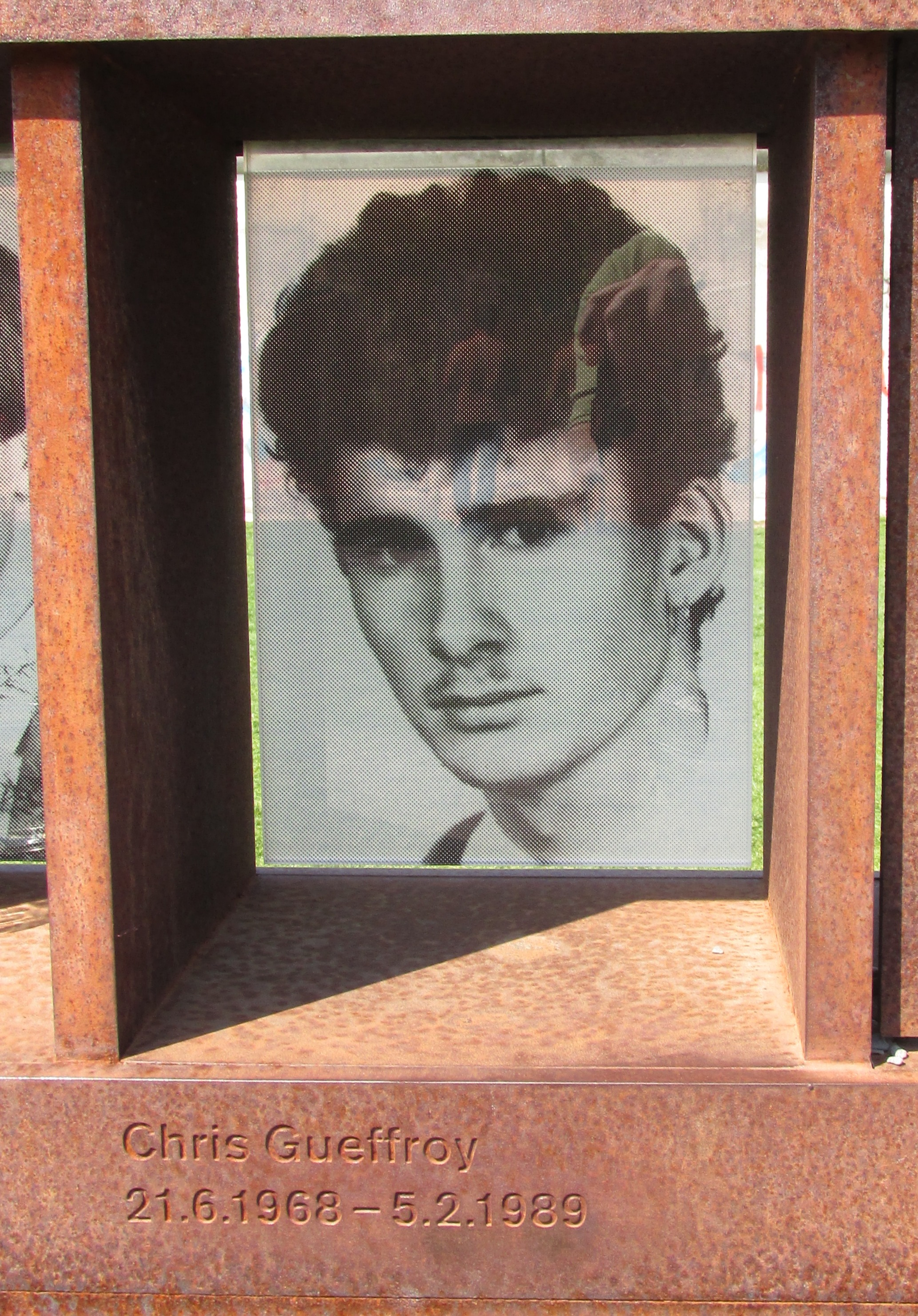 I took the picture myself at the Berlin Wall Memorial on Bernauer Strasse, in Berlin